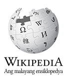 Wikipedia logo 2.0